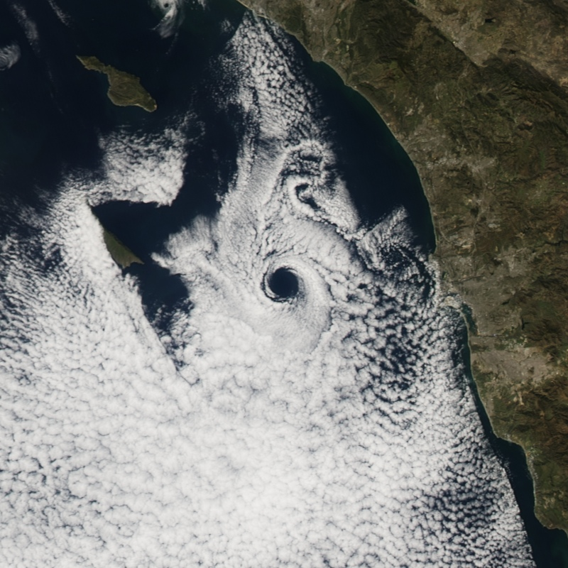 On February 17, 2013, the Moderate Resolution Imaging Spectroradiometer (MODIS) on NASA’s Aqua satellite captured this natural-color image of an atmospheric eddy off the coast of Southern California. The swirling, circular pattern in the clouds was due west of San Diego when Terra flew over around local noon. The pattern is known to meteorologists as a Catalina eddy, or coastal eddy, and it forms as upper-level flows interact with the rugged coastline and islands off of Southern California. The interaction of high-pressure—bringing offshore winds blowing out of the north—and low-pressure—driving coastal winds blowing out of the south—combine with the topography to give the marine stratus clouds a cyclonic, counter-clockwise spin. The eddy is named for Santa Catalina Island, one of the Channel Islands offshore between Los Angeles and San Diego. Catalina eddies can bring cooler weather, fog, and better air quality into Southern California as they push the marine boundary layer further inland. These mesoscale eddy patterns can stretch across 100 to 200 kilometers (60 to 120 miles) and can last from a few hours to a few days. They most often form between April and October, peaking in June.